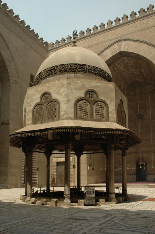 Mosque-Madrassa of Sultan Hassan. Cairo. Egypt